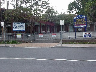 Homebush Public School